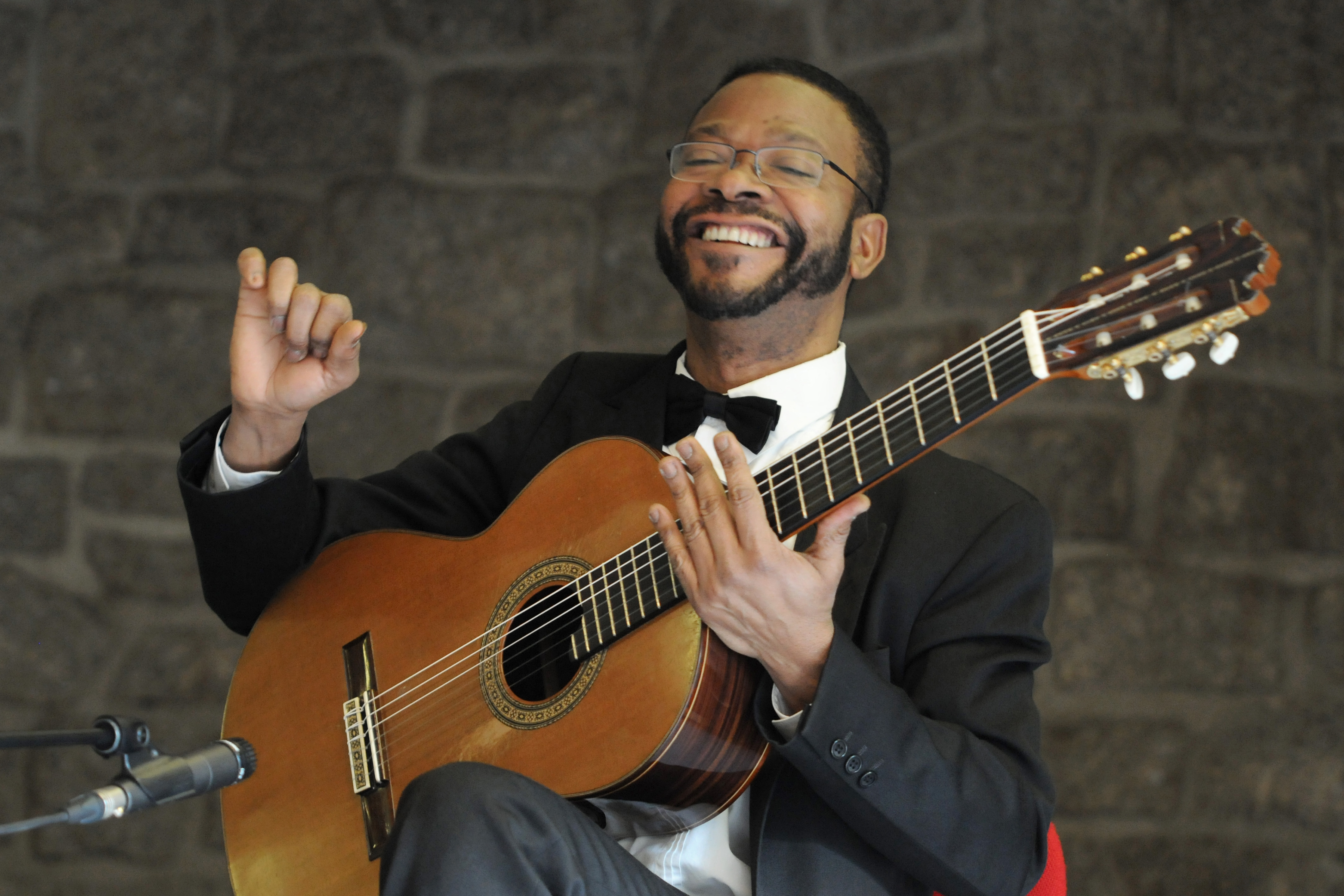 Recital of the guitarist Amos Coulanges at the Commemoration of the First Anniversary of the Haiti Earthquake, UNESCO Headquarters, FranceRomână: Chitaristul Amos Coulanges susține un recital la comemorarea unui an de la cutremurul din Haiti, la sediul UNESCO din Franța